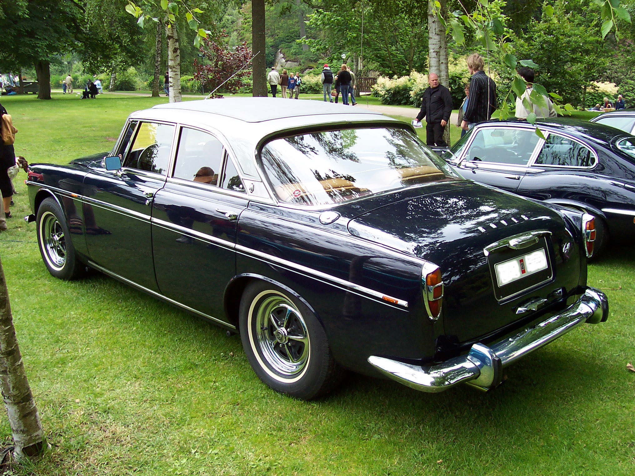 Rover P5 Coupé, a traditional four-door coupé. The so-called coupé version featured a lowered roof line.